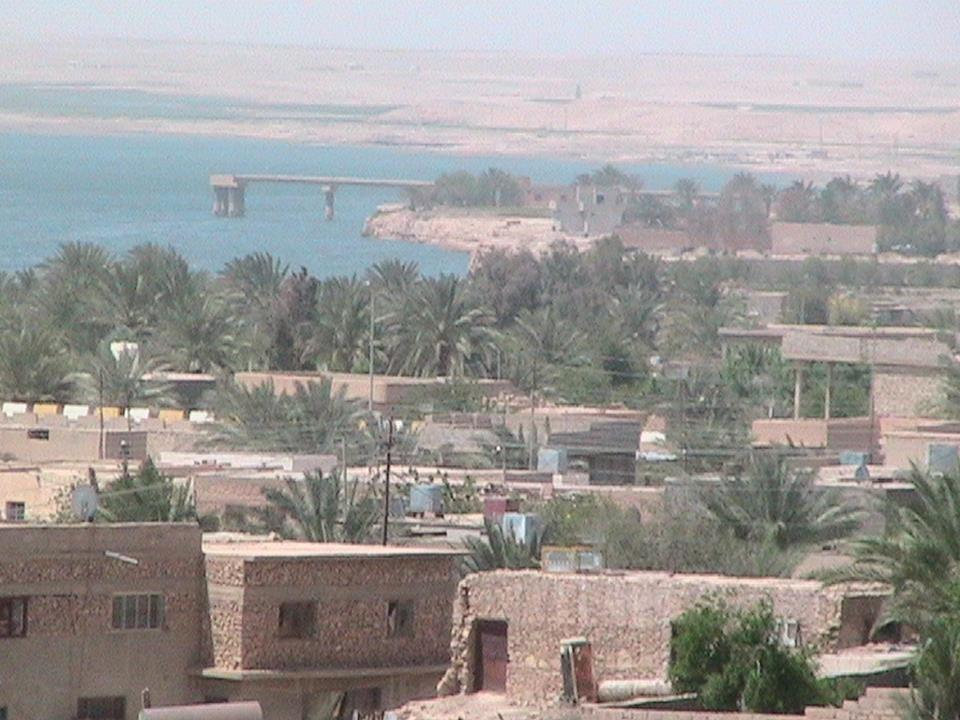 city of Rawa in Iraq